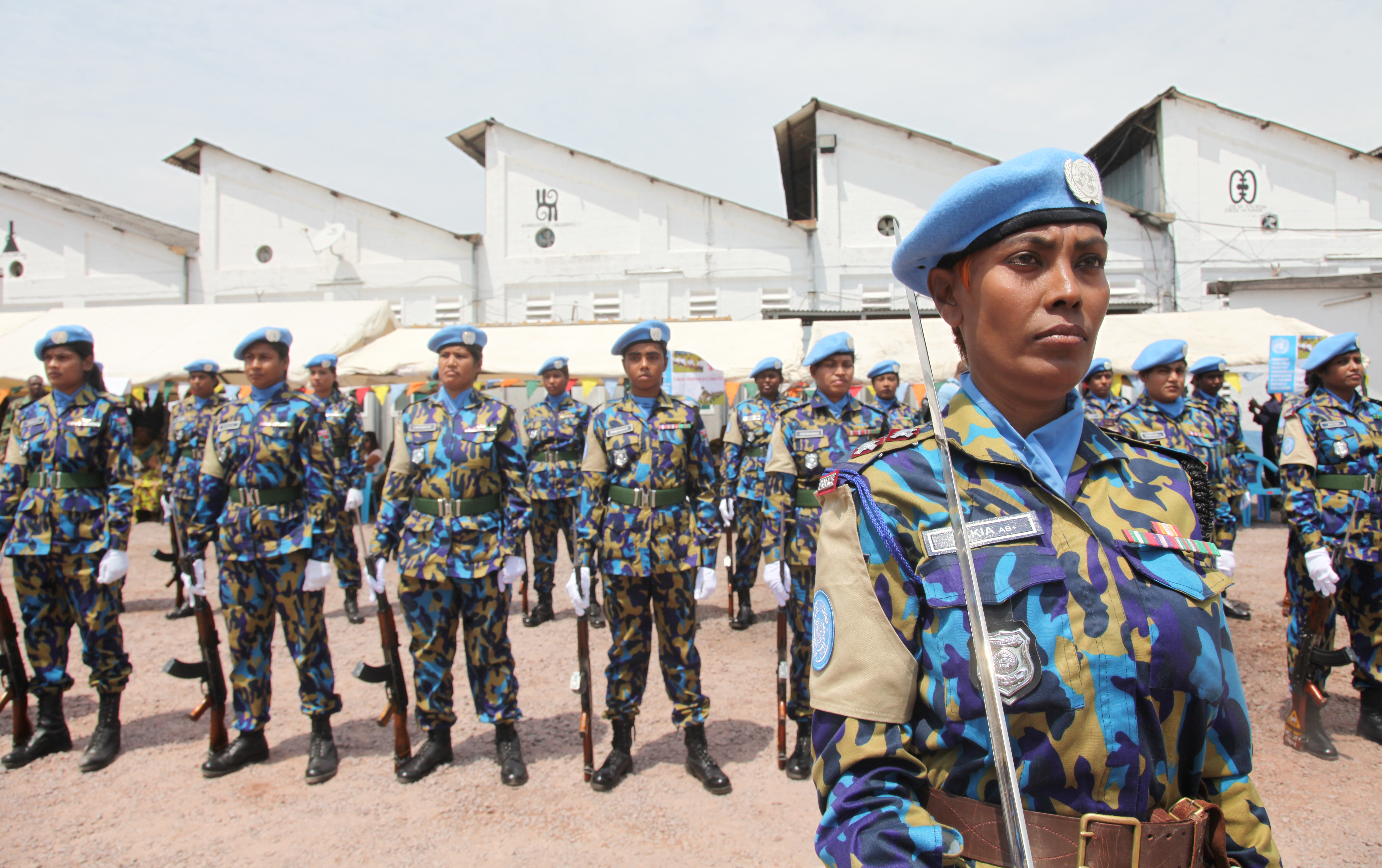 2012-03-09-Kinshasa Ghanbatt Celebration on the International women Day. MONUSCO/ Myriam Asmani